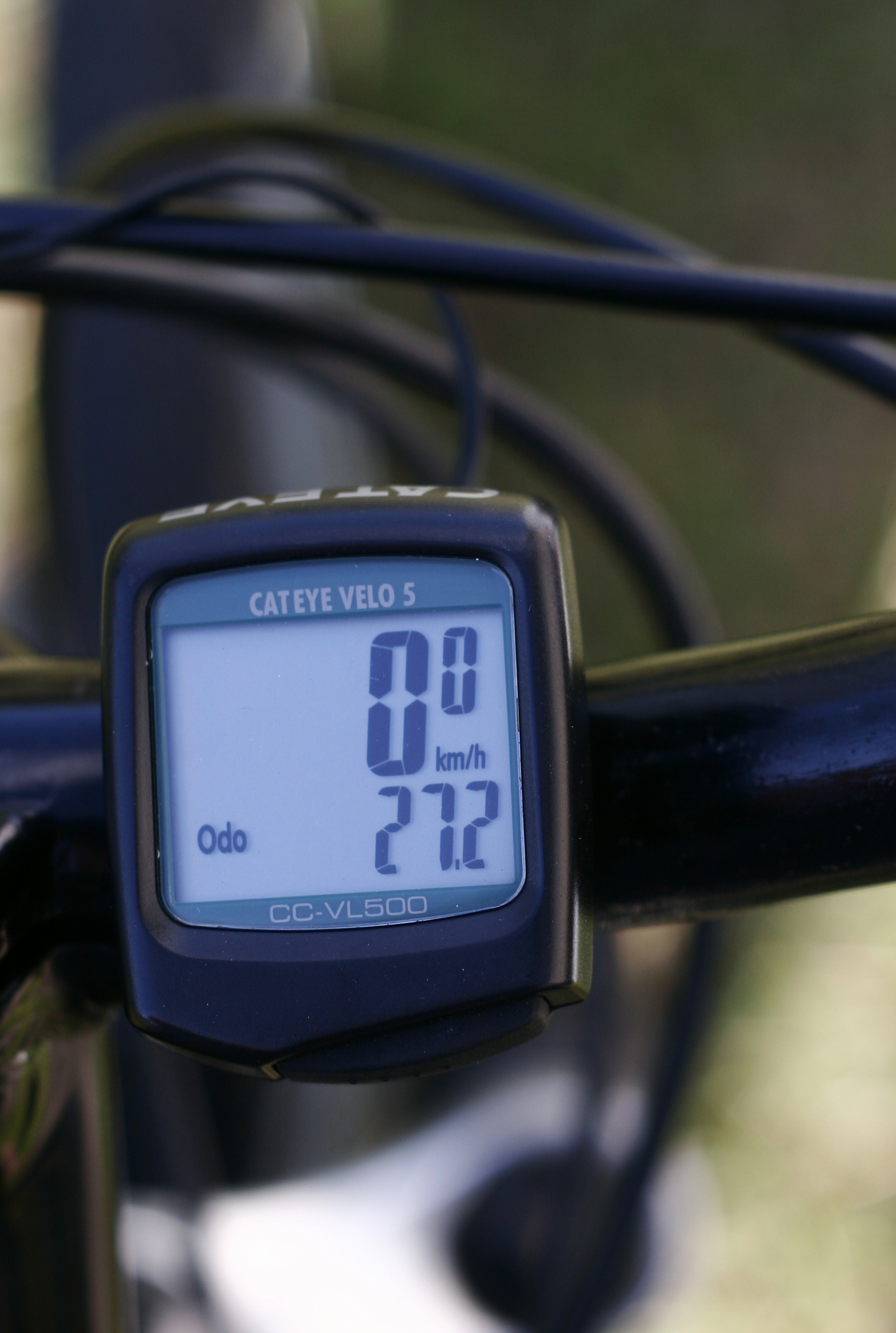 Cateye cyclocomputer mounted to a bicycle handlebar.